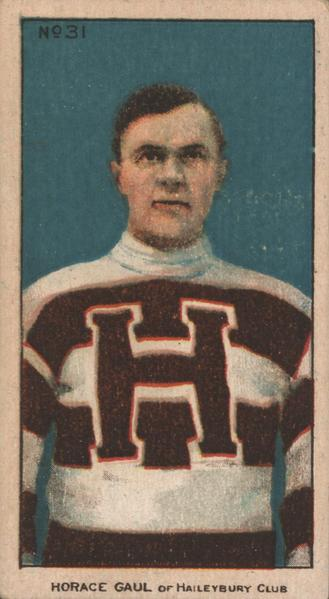 C56 Horace Gaul hockey card